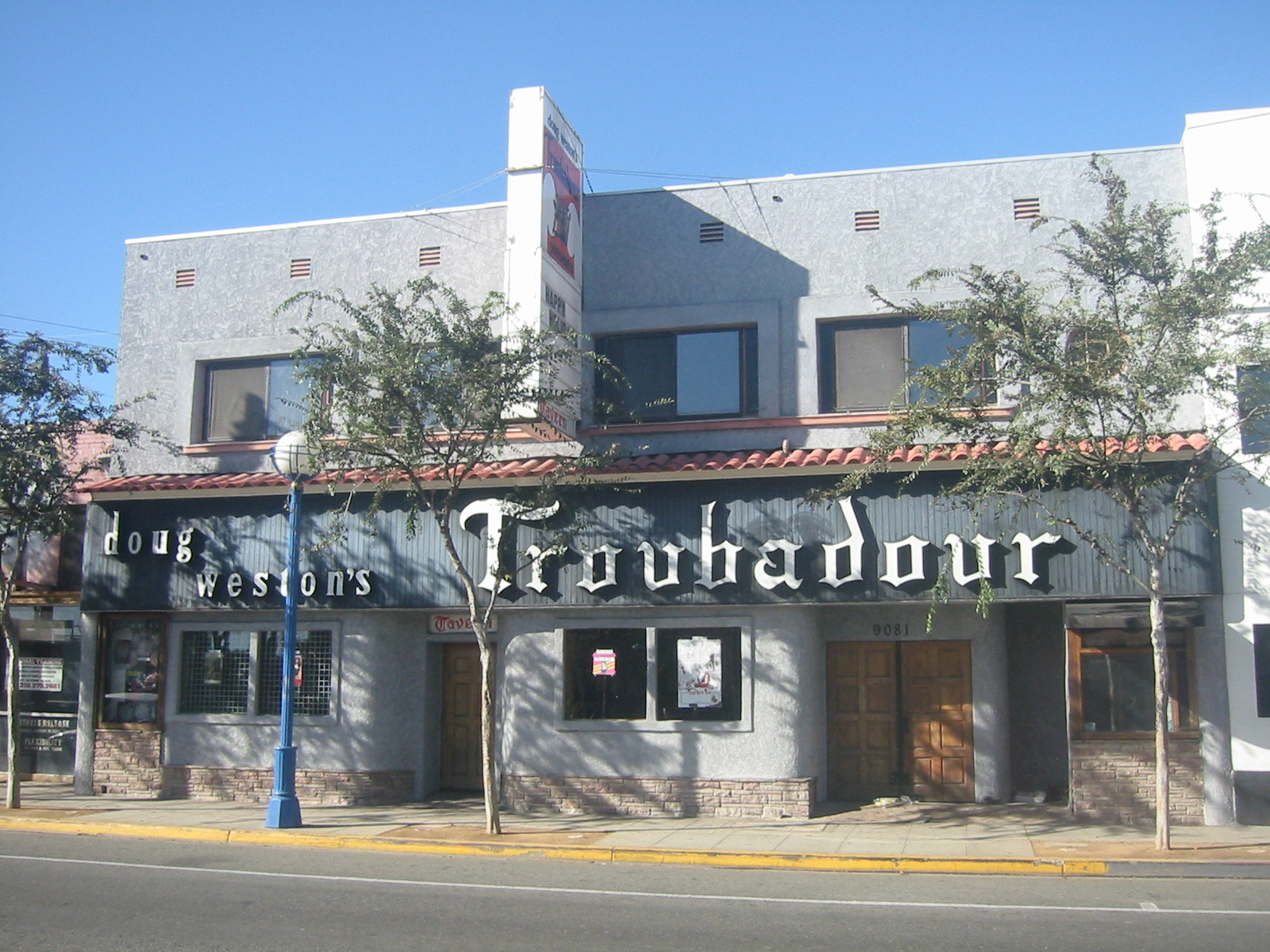 Exterior of Doug Weston's Troubadour nightclub in West Hollywood, CA